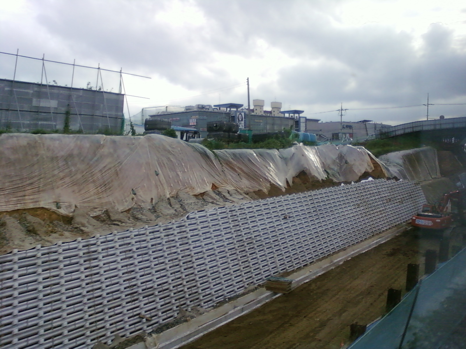 Jeolla Line under construction